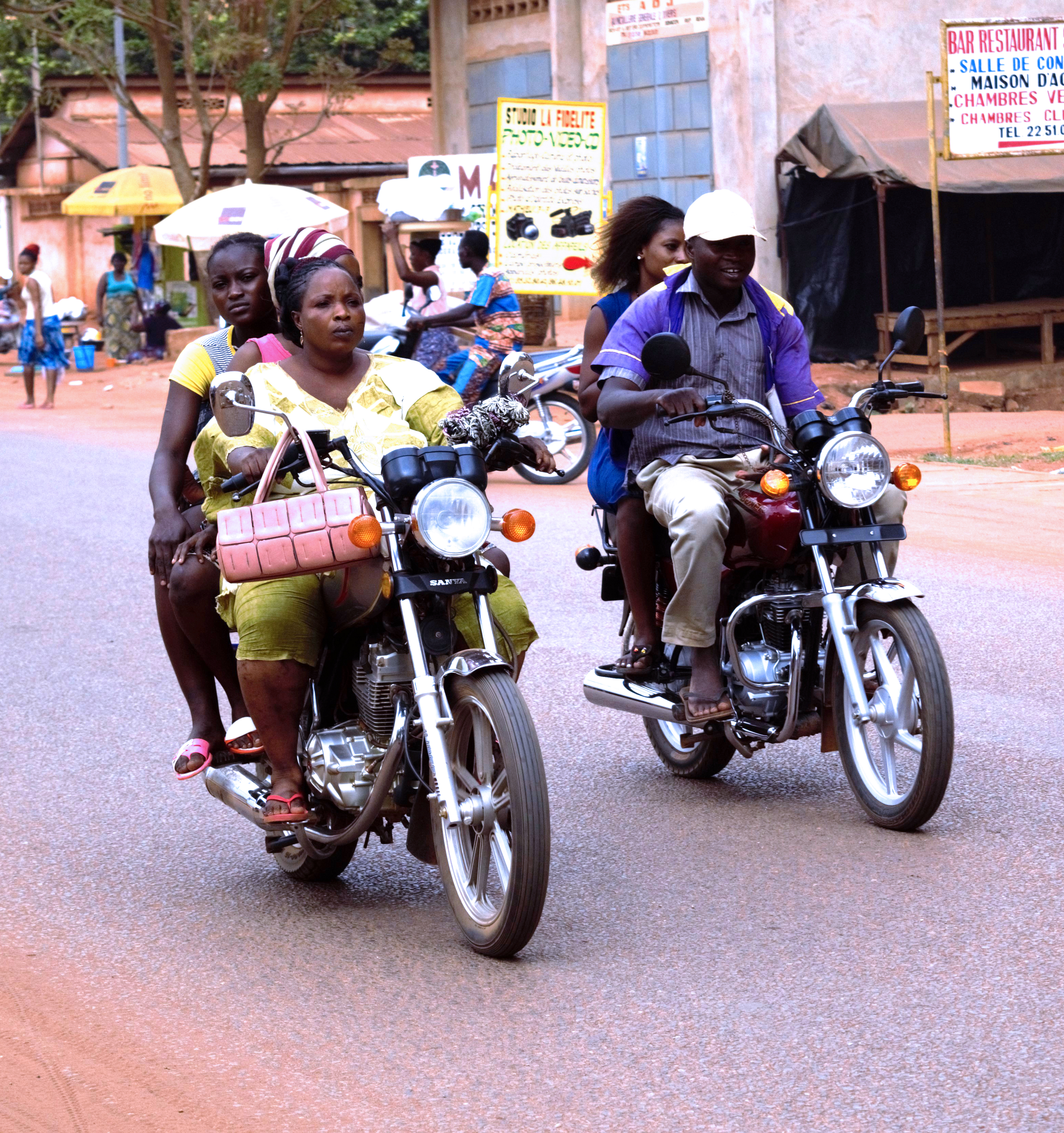 Woman riding a big motorcycle and towing two other women! In many parts of Benin, like here in Bohicon, it is common to see a woman driving a motorcycle or riding a bike. The woman here is trading and has to transport her products to market. For men to have a woman who knows how to drive a motorcycle is like having two women. The motorcycle or bicycle is considered to be the man's other wife, in view of the multiple functions of the bicycle or motorcycle. There is even a saying in Fon language that says that if your wife leaves you, it is not your motorcycle or bike that has left you. As long as you have one of these means of transportation, you can always get on with your life and have a new wife. This motorcycle is one of the big models of this brand. There's a certain trend that might think that only men can ride it. But, no, this woman rides it with a certain ease and this with two others behind, in the middle of downtown Bohicon. Translated with (free version)